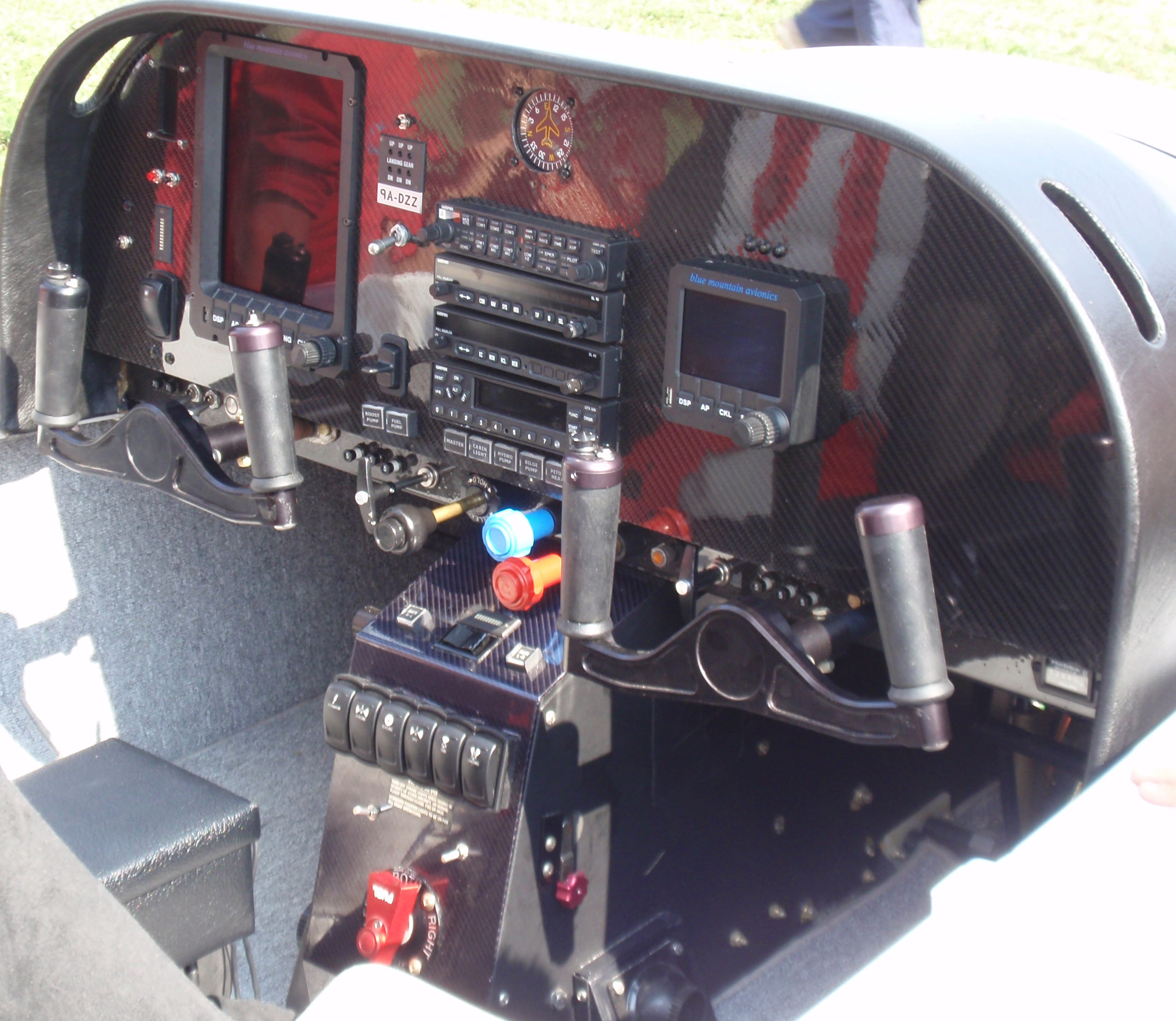 Seawind 300C cockpit (9A-DZZ)